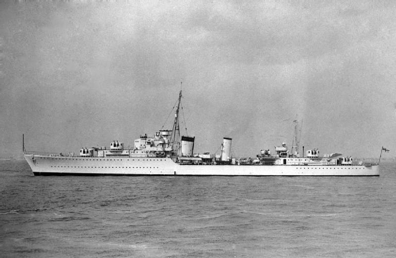 The Royal Navy Tribal-class destroyer HMS Afridi (F07), as completed, 1938.